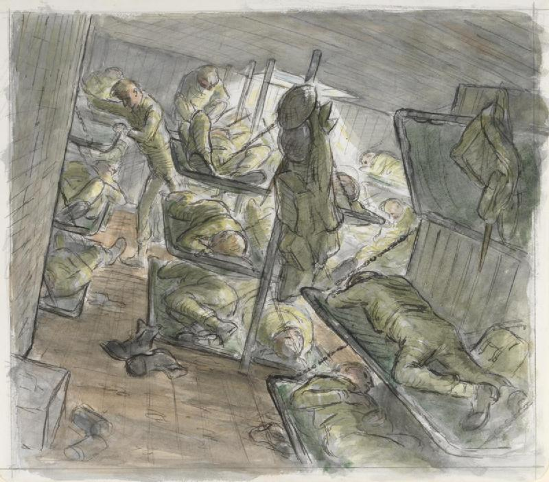 Between Decks on an Lci image: a scene below deck on a landing craft transporting infantry. Men are sleeping in cramped conditions on fold down bunks suspended by chains. Most of the men are asleep, though one man in the left background is preparing to mount the upper bunk. The bunks are in tiers of three.